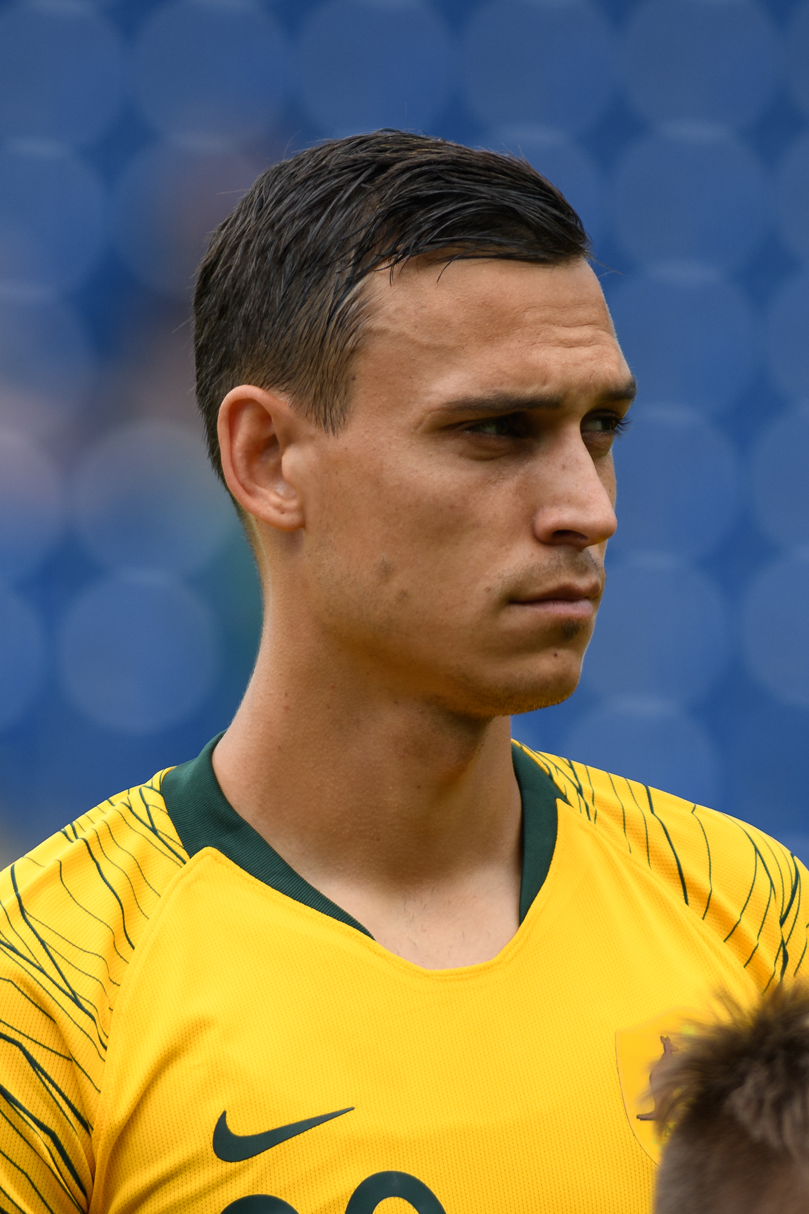 FIFA Friendly Match Czech Republic vs.Australia 2018/03/27. Picture shows Trent Sainsbury (AUS).